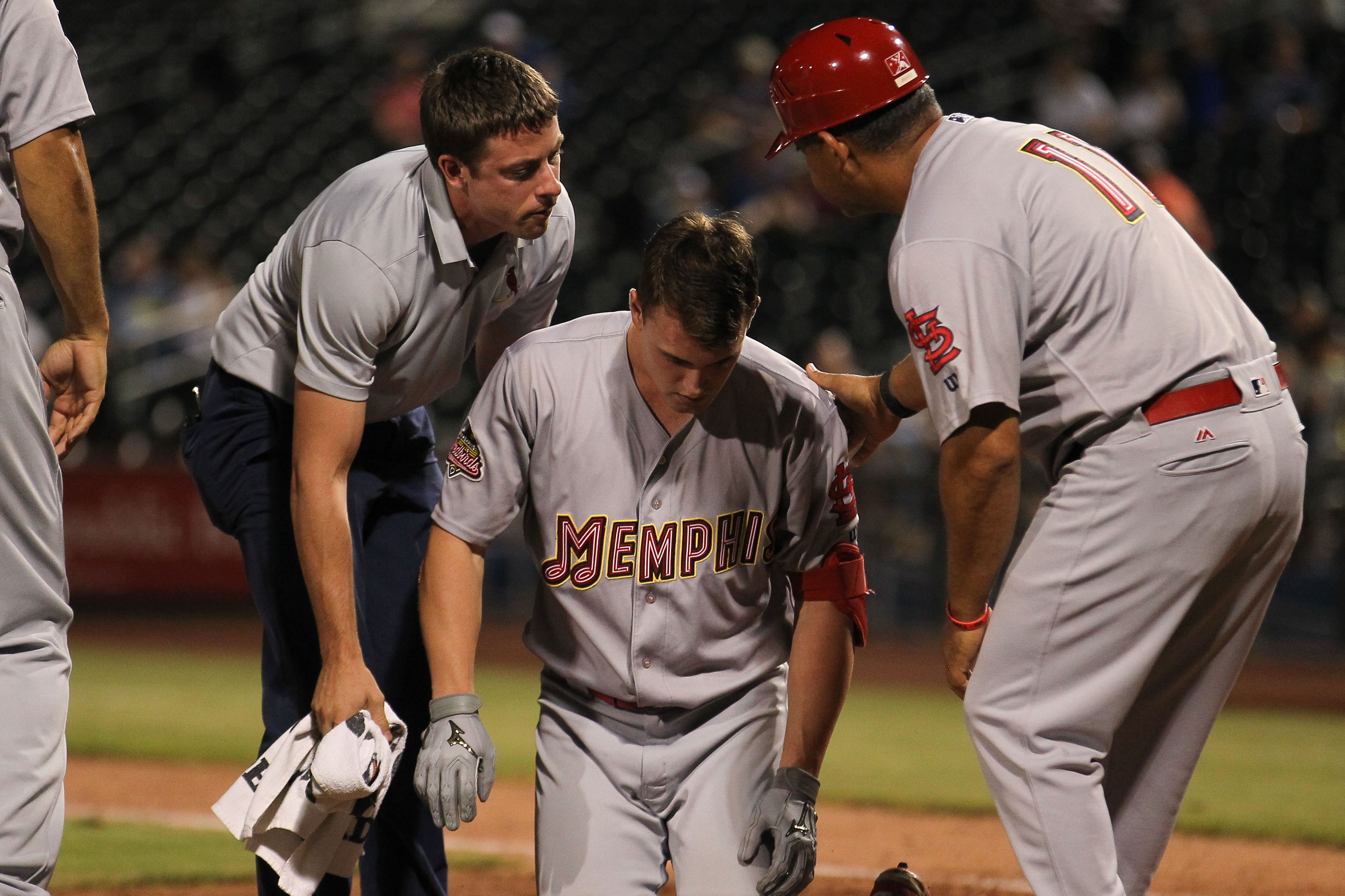 Coach Jobel Jimenez and a trainer tend to Lane Thomas of the Memphis Redbirds during a 2019 game at Werner Park in Nebraska